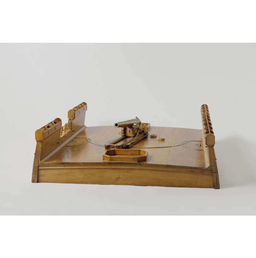 A model of a Dutch bronze rifled gun No. 1 en pivot on deck of the Watergeus